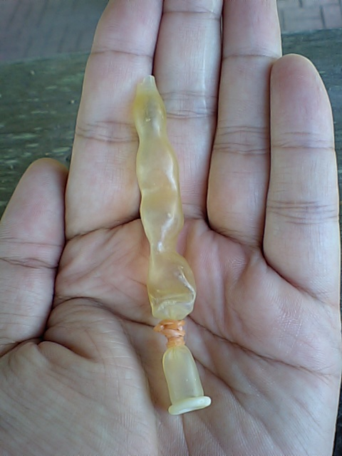 Bakudankyande rubber after eating